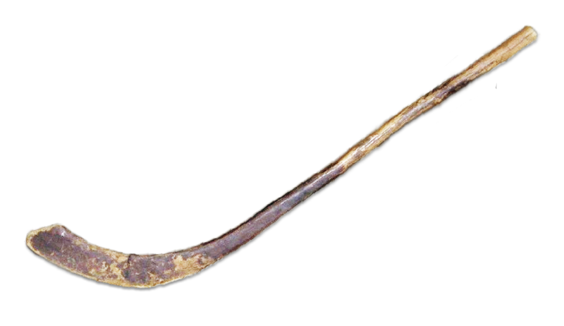 hockey stick belonging to William Moffatt, made between 1835 and 1838 in Nova Scotia (sugar maple wood)